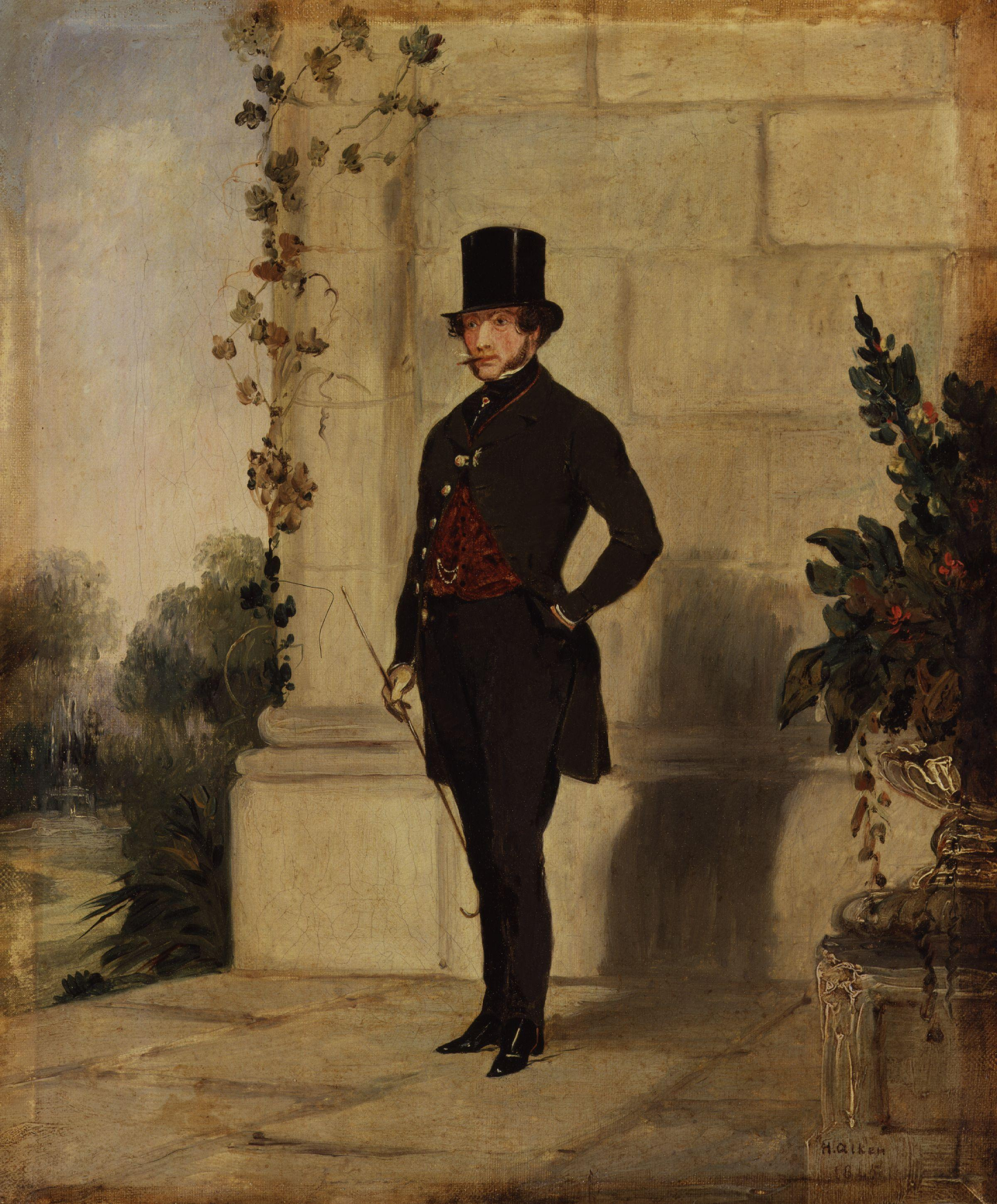 All images in this batch have been confirmed as author died before 1939 according to the official death date listed by the NPG.